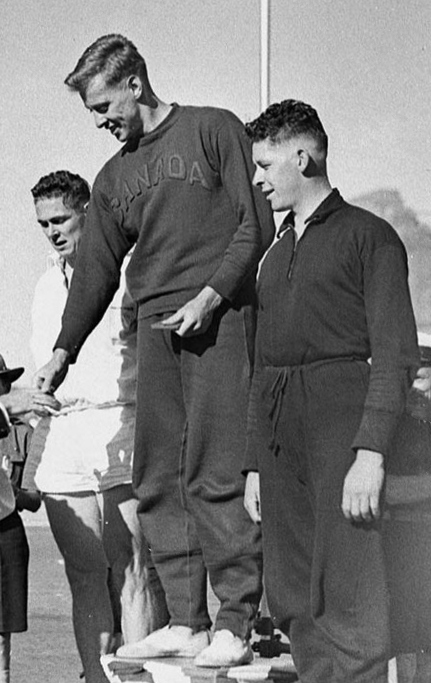 Empire Games, Sydney Cricket Ground - victory dais, men's javelin